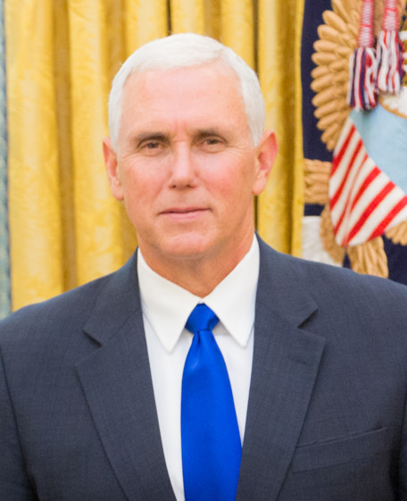 Vice President Mike Pence, displays his signed Executive Order for the Establishment of a Presidential Advisory Commission on Election Integrity, Thursday, May 11, 2017, in the Oval Office of the White House in Washington, D.C.